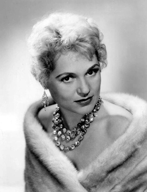 Promotional photograph of actor Judy Holliday (1954)